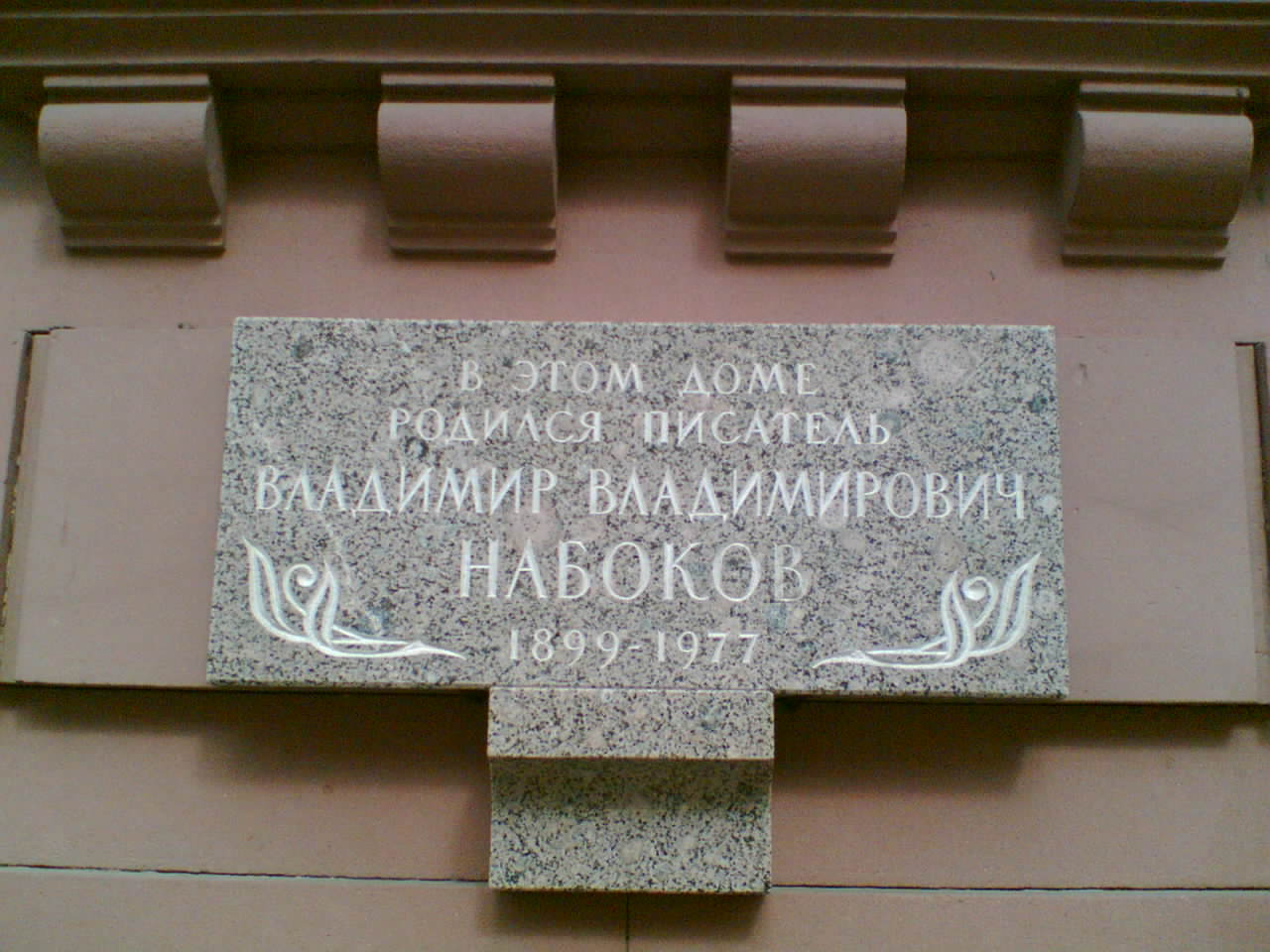 Nabokov house memorial plaque